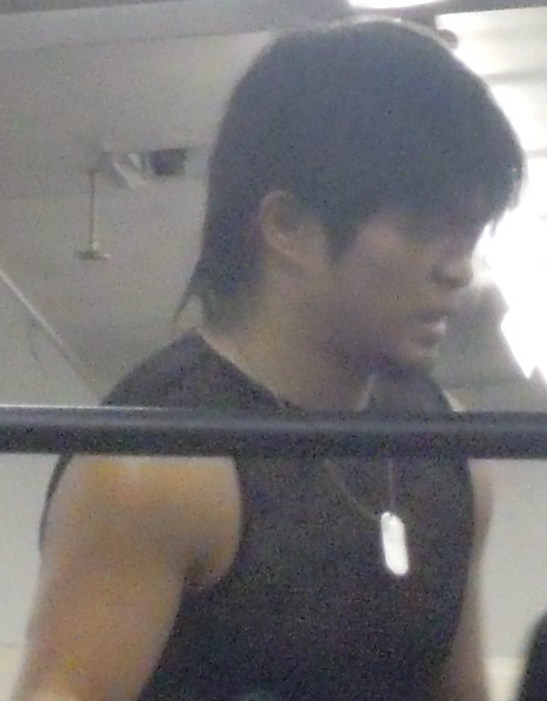 Japanese professional wrestler,MIKAMI.Oct 10 2010 DDT Sapporo Teisen Hall.